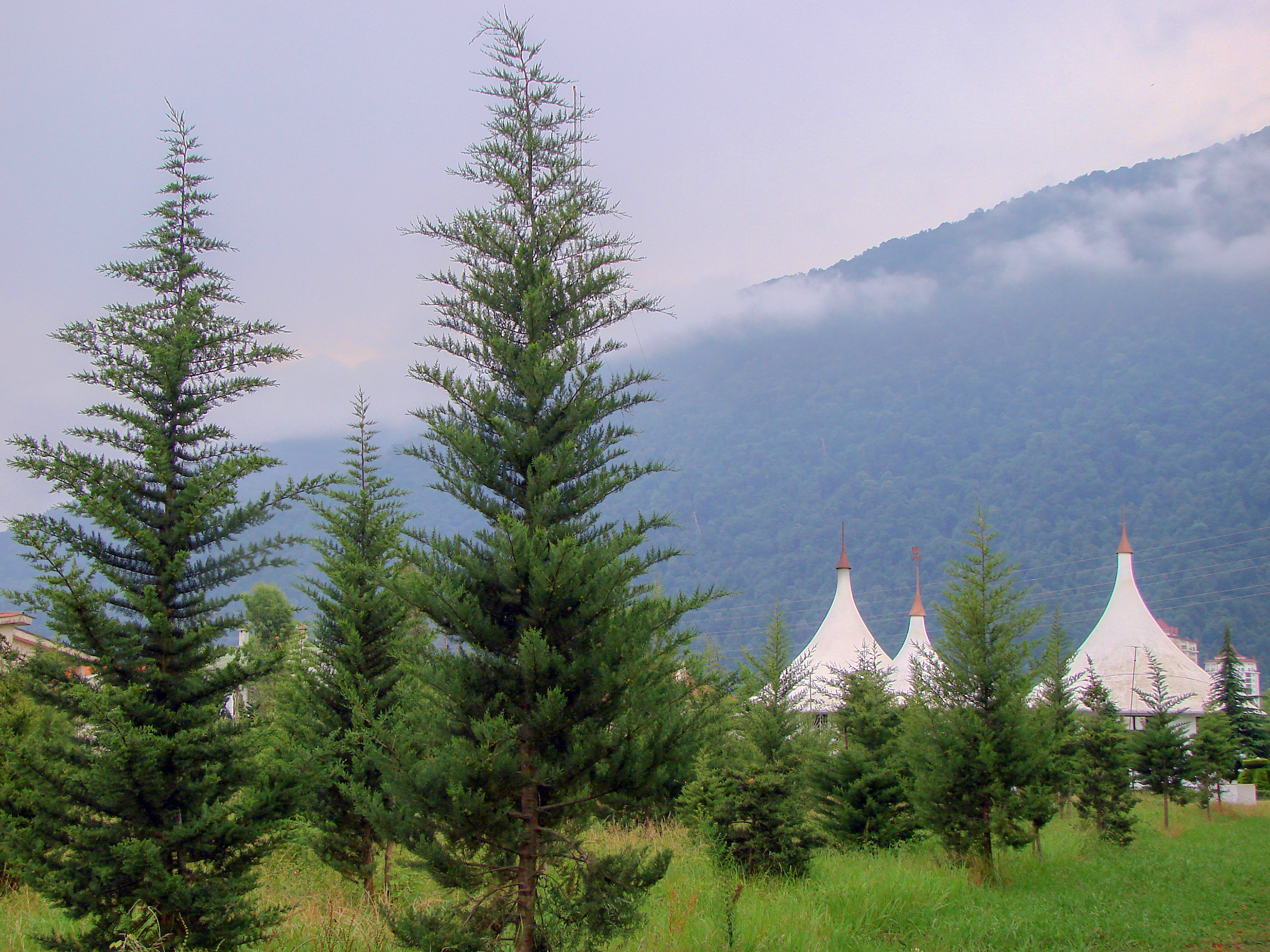 Shahrak-e Namak Abrud is a touristic village and has an aerial tramway which starts at the sea level near the shores of the Caspian Sea and ends on the top of the Alborz heights crossing dense forest area of northern Iran. There are numerous villa cities around it which form a vacation region for the people of Tehran.